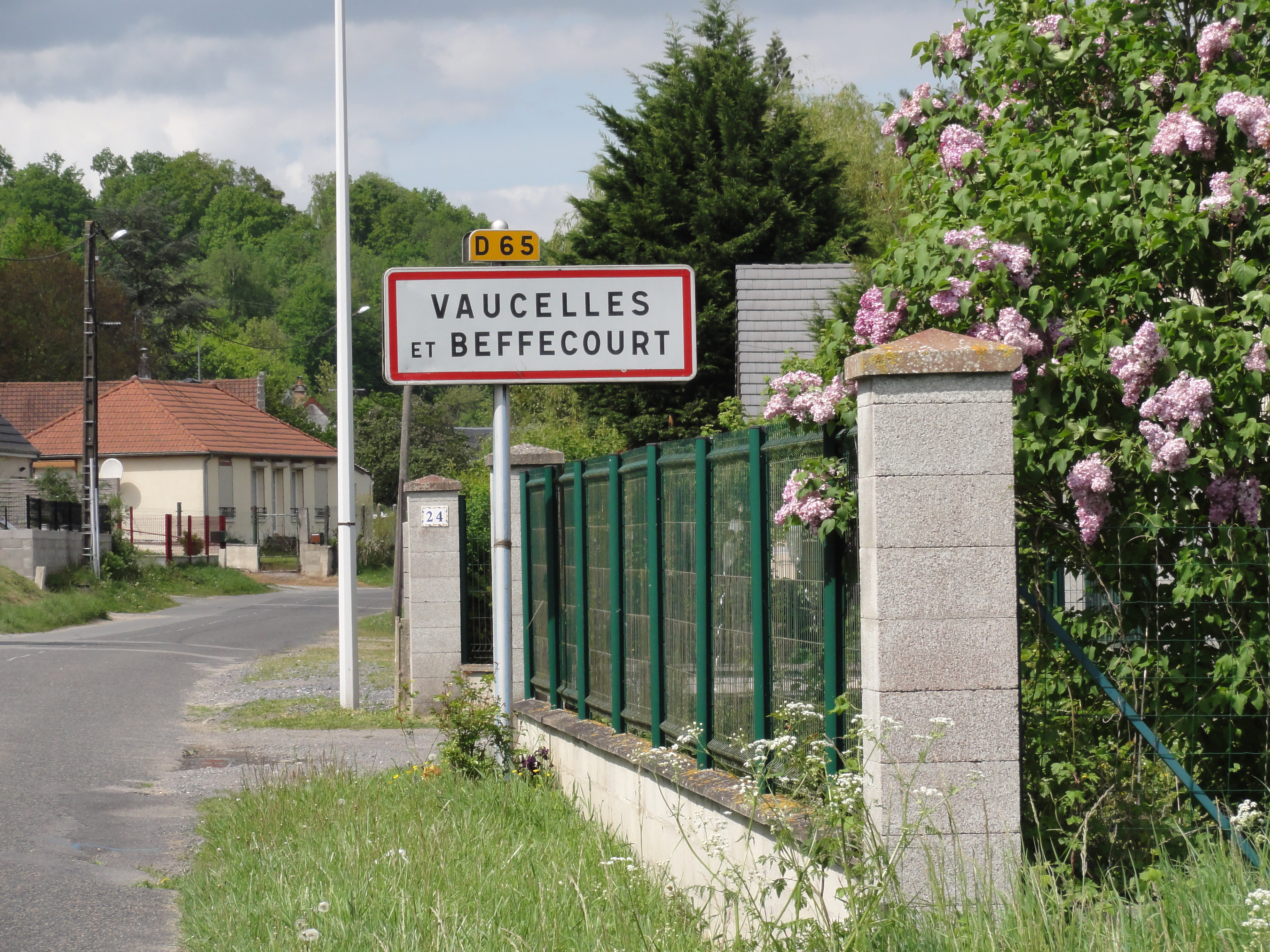 Vaucelles-et-Beffecourt (Aisne) city limit sign